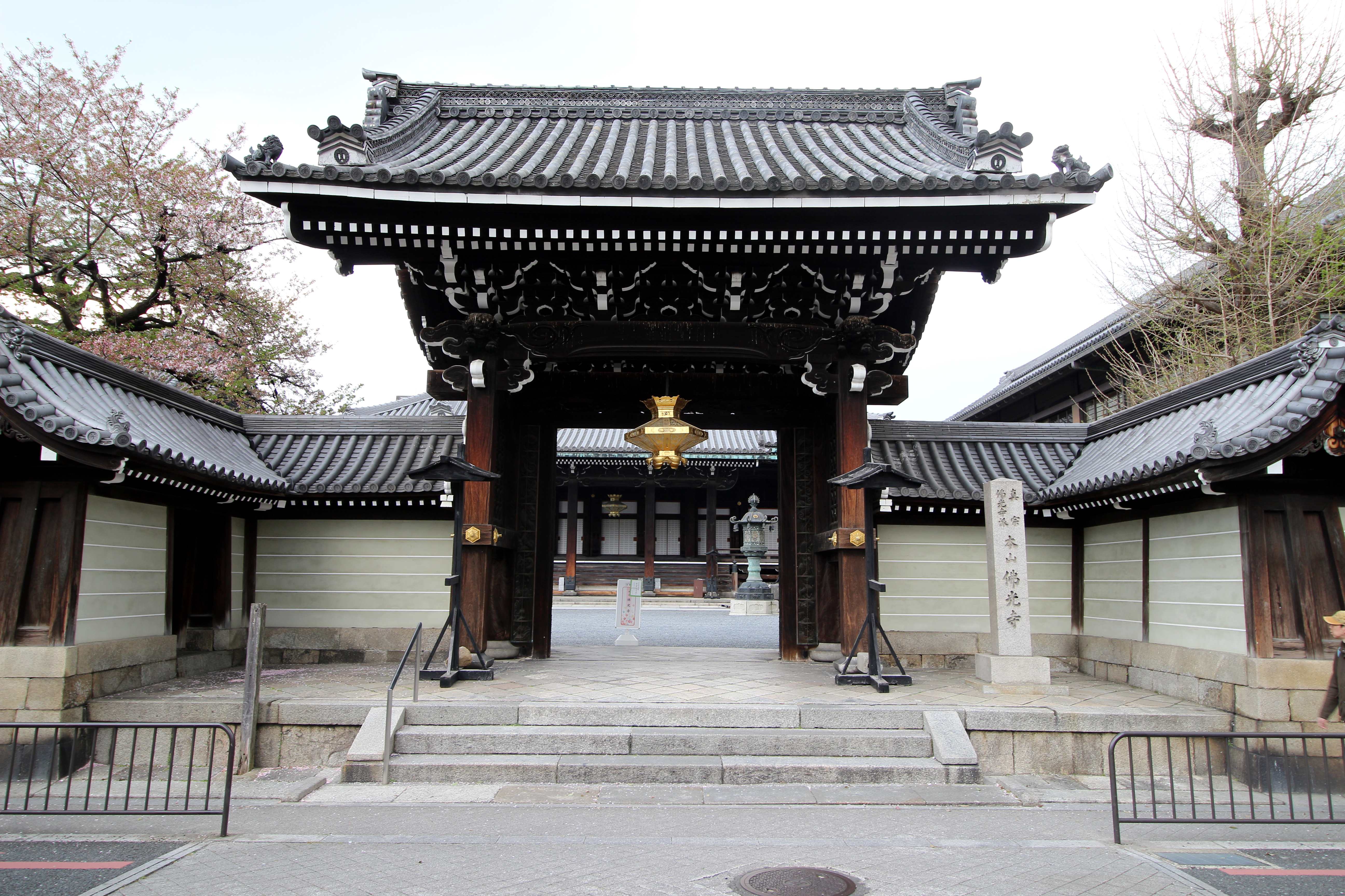 Entrance to Bukkō-ji in Kyoto, Japan.